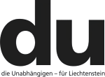 Logo of The Independents, a political party in Liechtenstein